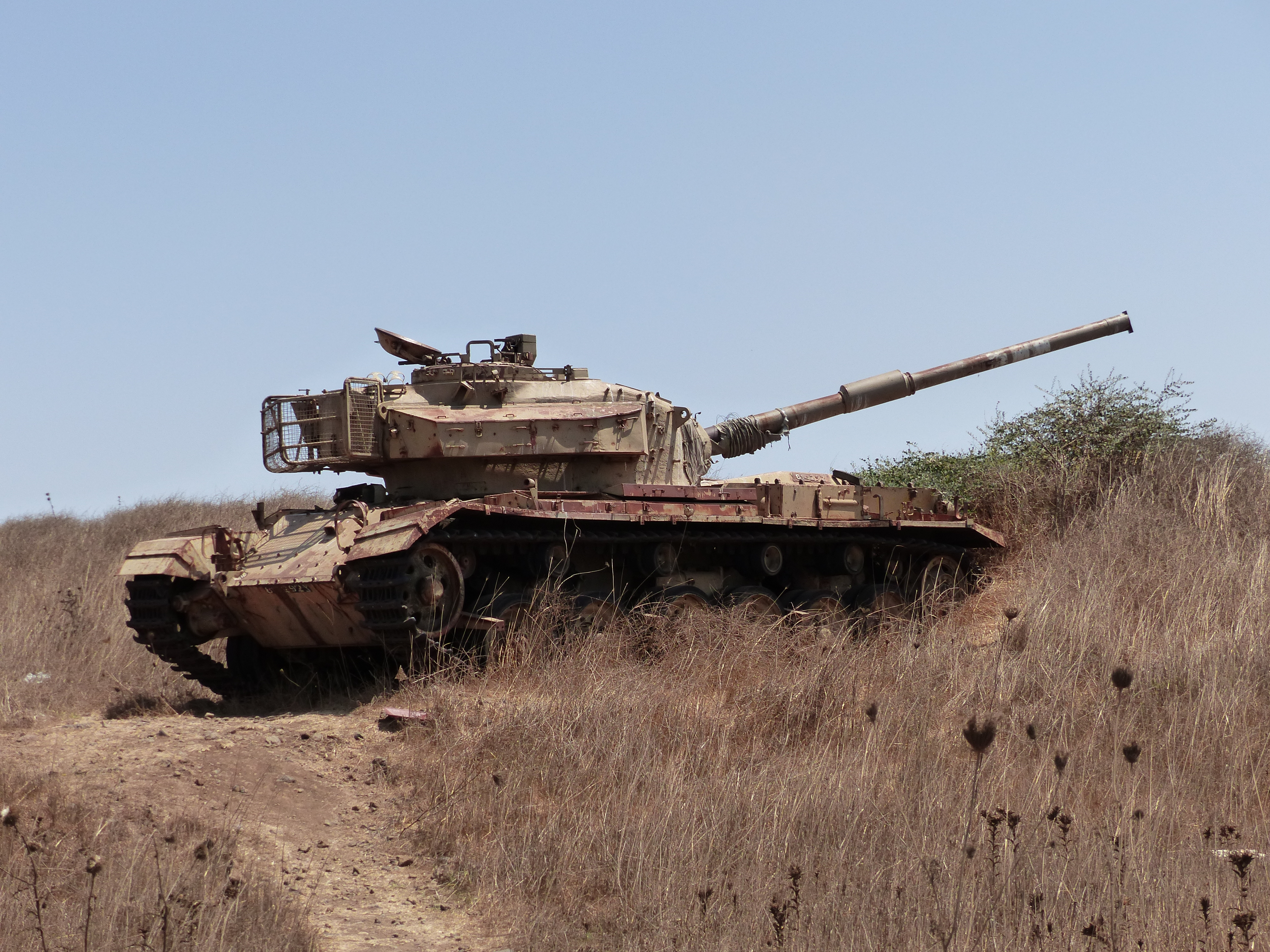 Centurion and Shot tanks in Israeli service, Golan Heights